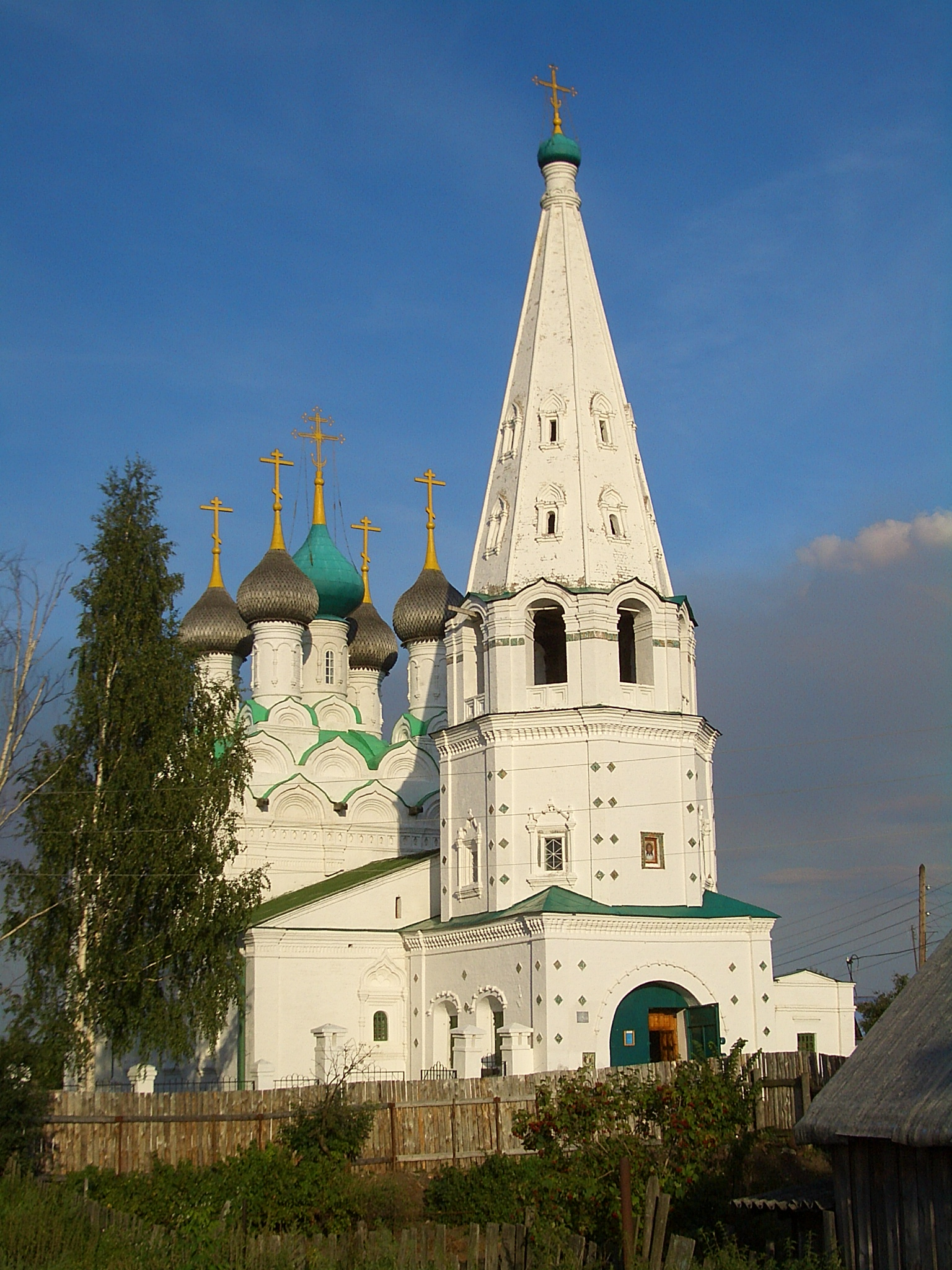 Saviour's Church in Balakhna. The church was built in 1668, the belltower in 1702